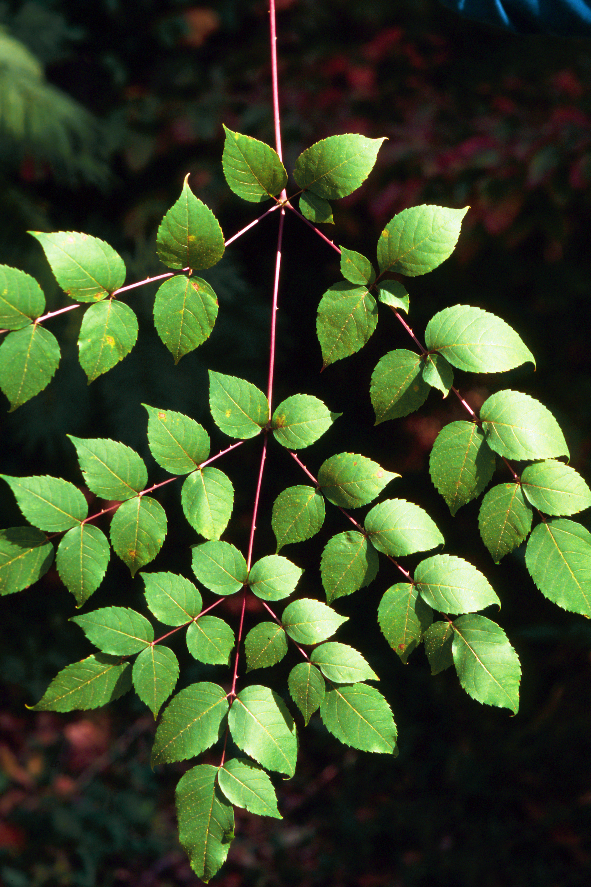 Aralia spinosa L. - devil's walkingstick - Foliage, October, United States